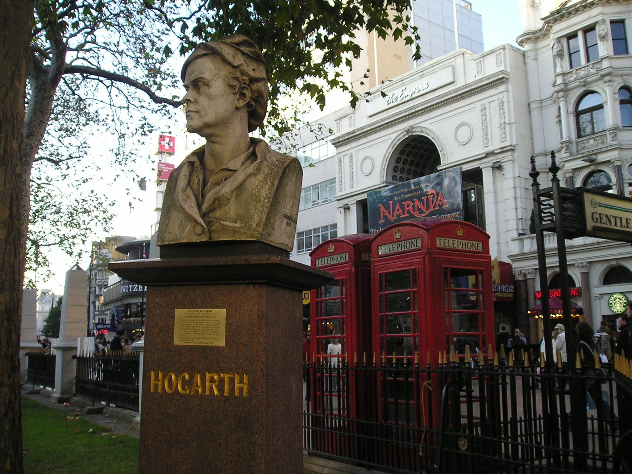 Statue of Hogarth, Leicester Square